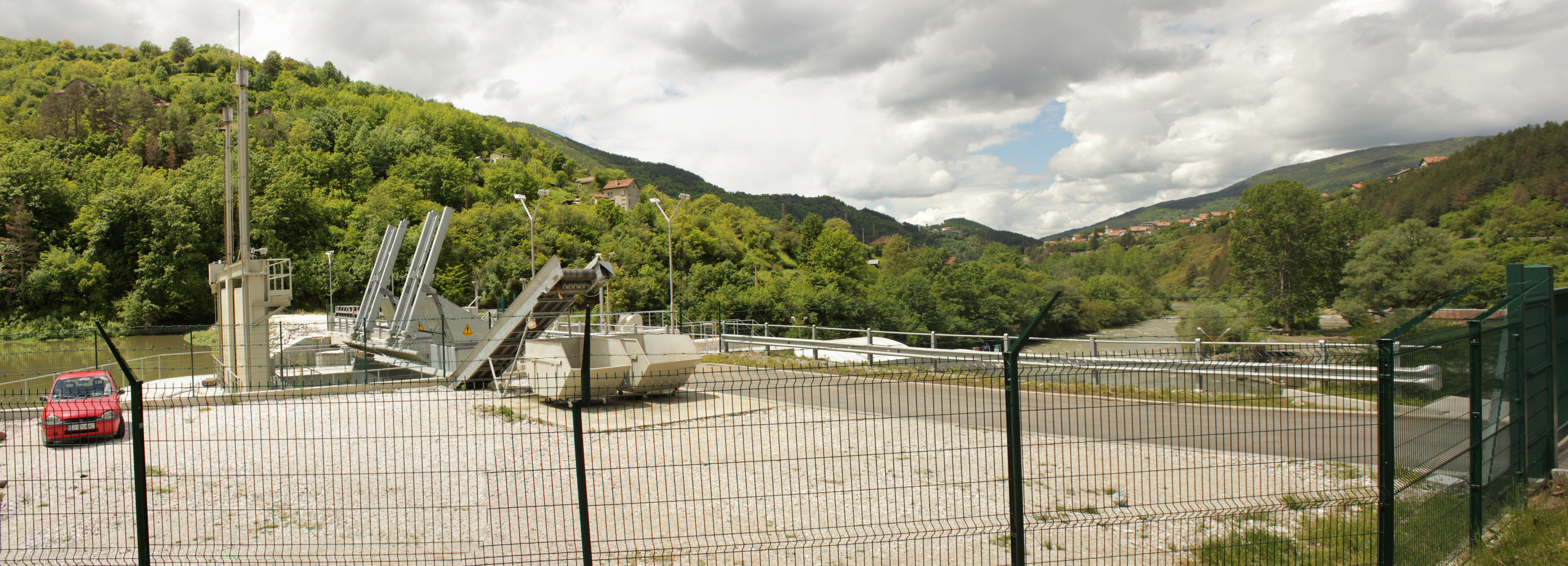 Small hydroelectric power station at Svoge, Bulgaria